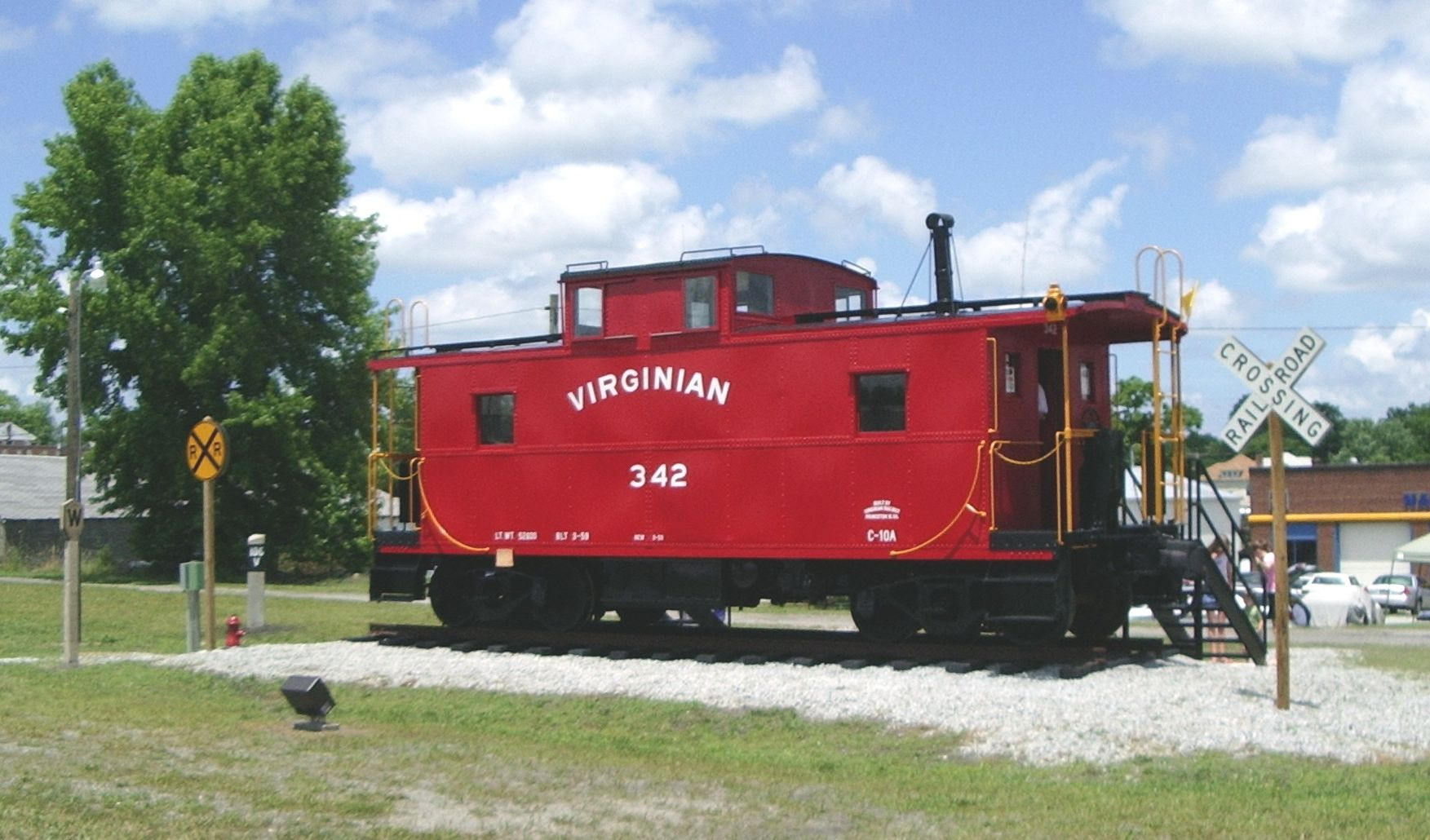 Virginian Railway restored and fully-equipped caboose # 342 placed on static display at new Rail Heritage Park in the town of Victoria, Virginia, August 2004.